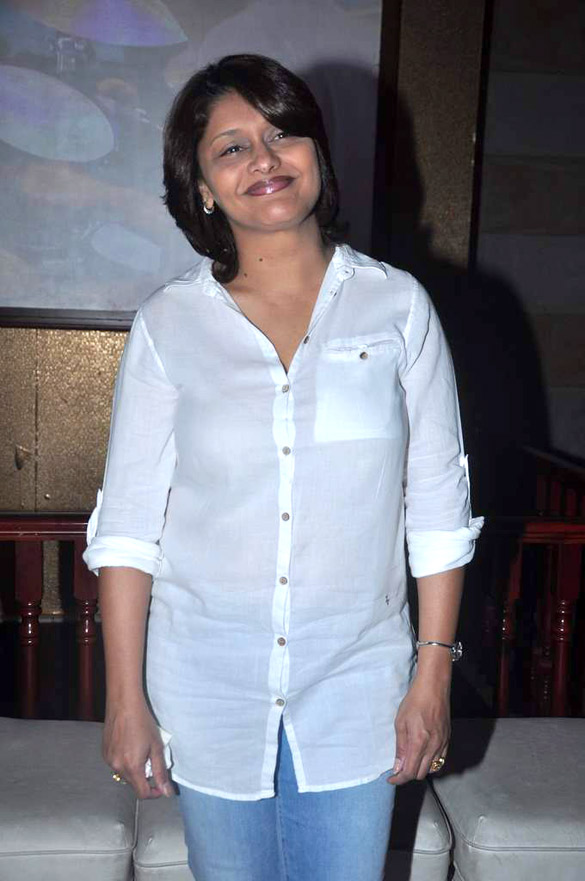 Pallavi Joshi and Tanvi Azmi at Success bash of 'Hate Story'